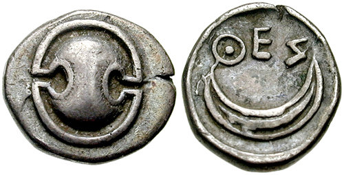 Thespiae, 431-424 BC. AR Obol (11mm, 0.87 gm). Boeotian shield / ΘΕΣ(ΠΙΕΩΝ - of Thespians), crescent.